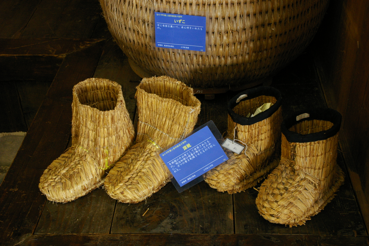 Straw boots, used before rubber boots became popular in Japan, displayed at the Obira Town Local History Museum, Hokkaido, Japan